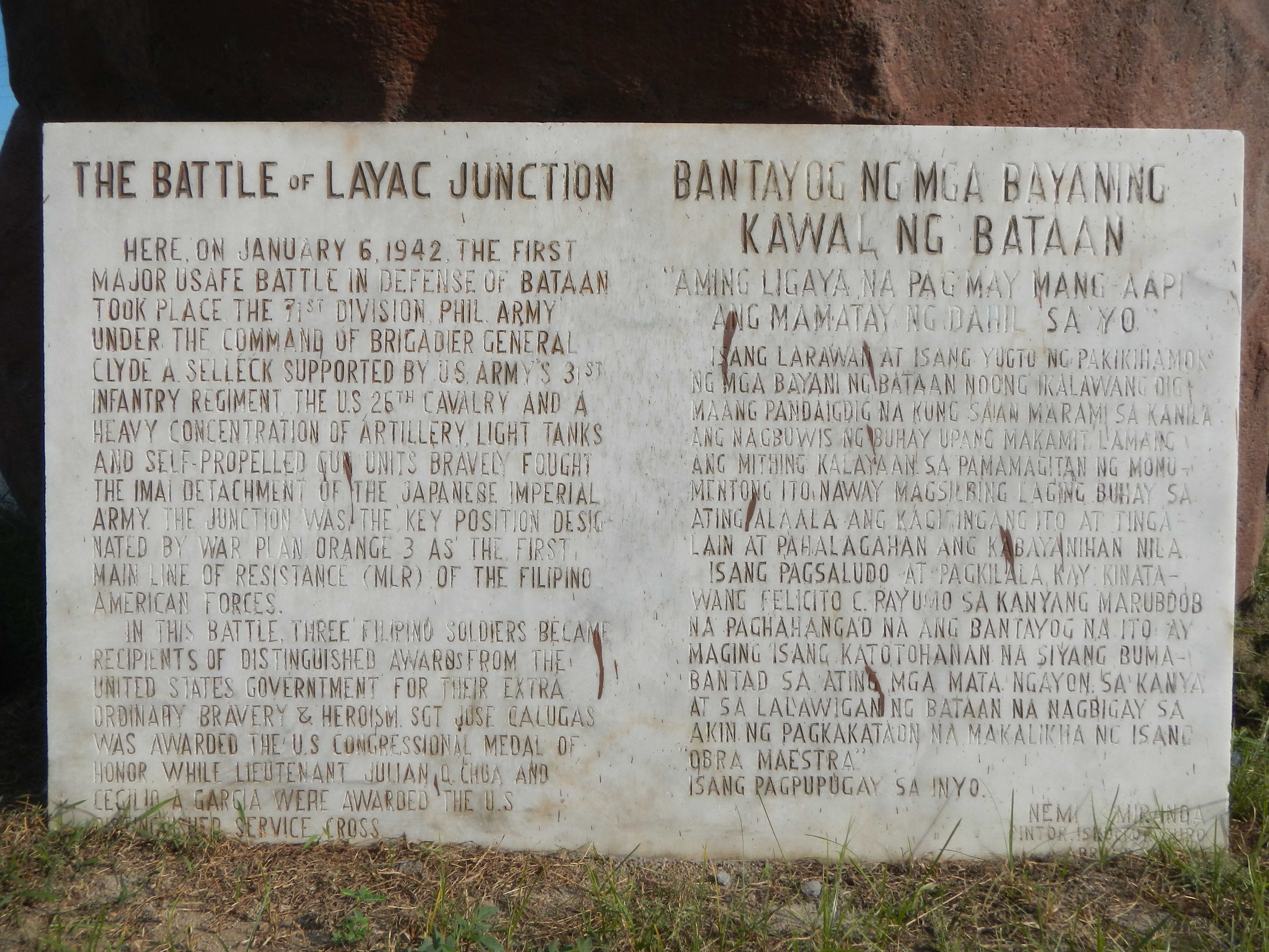 [1]Dinalupihan, Bataan [2]National World War II Memorial